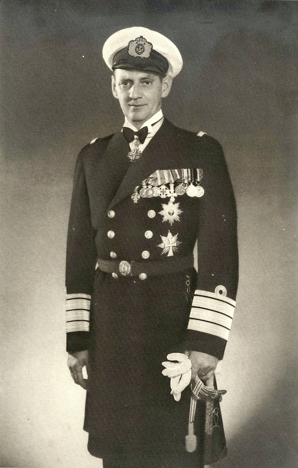 King Frederick IX of Denmark shortly after his ascension